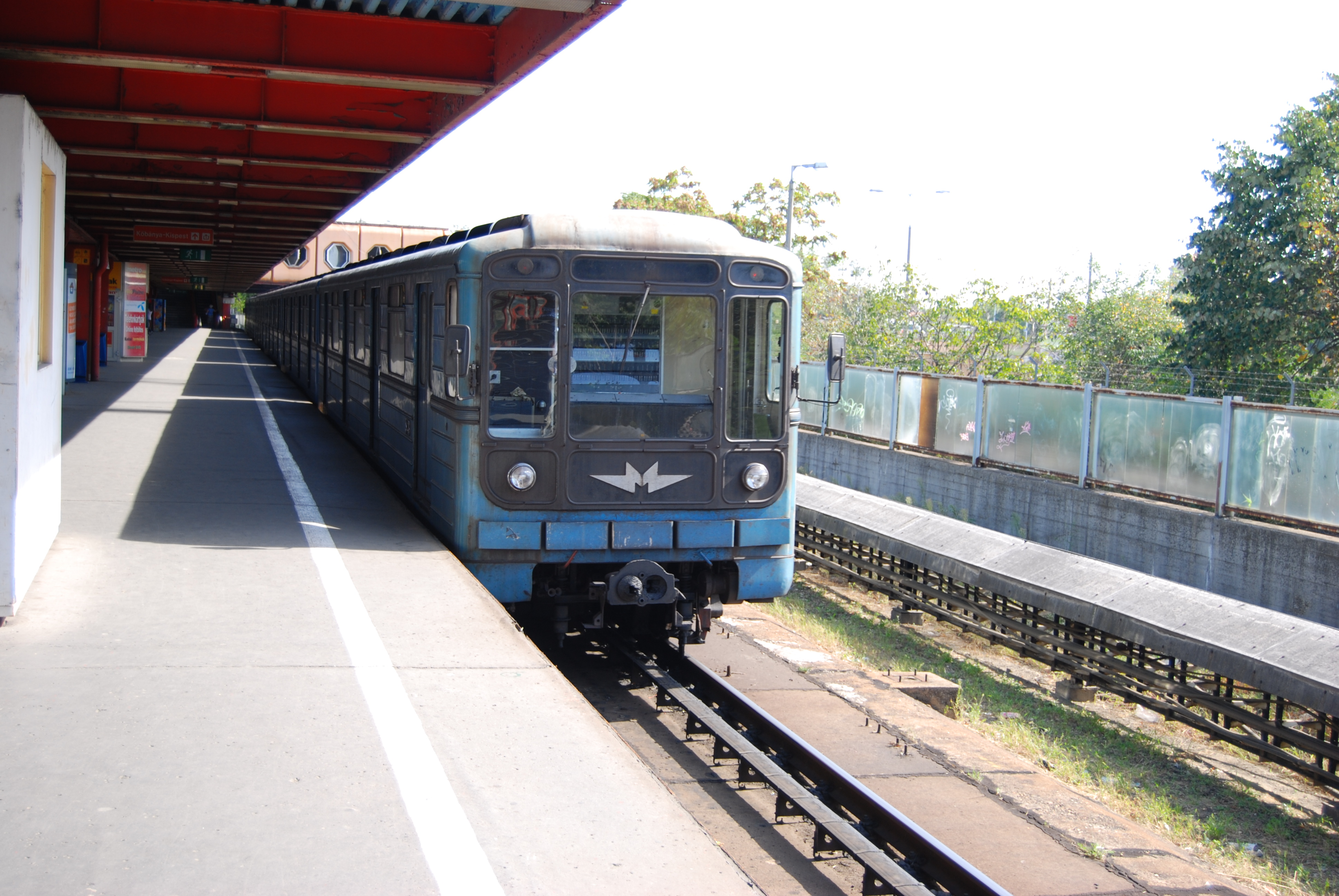 Train 81-71 at Kőbanya-Kispest